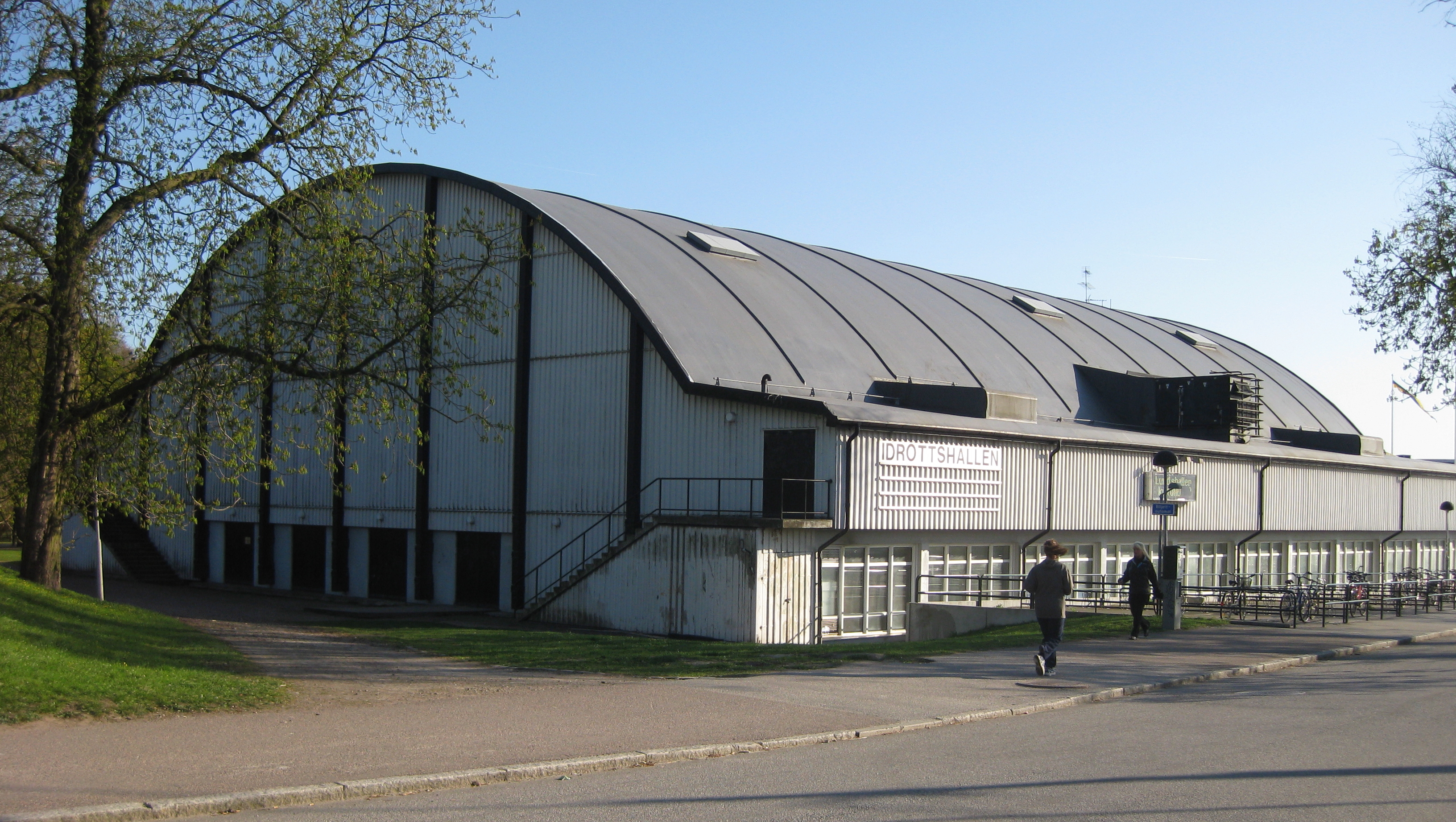 Old sports arena in Lund, Sweden